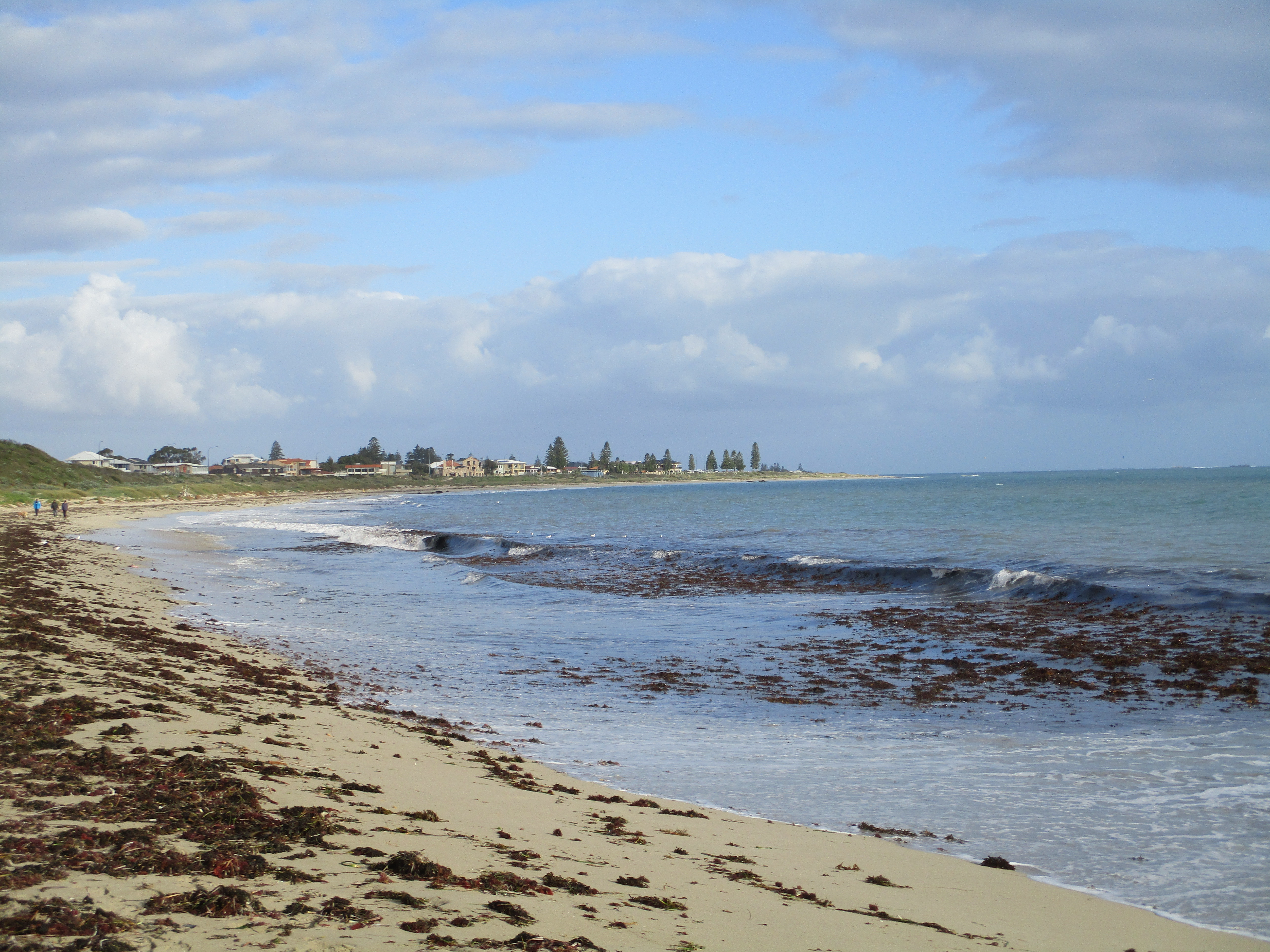 Shoalwater Bay, looking south as far as Mersey Point.